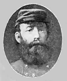 Colonel John Lane, first colonel of 26th North Carolina infantry regiment